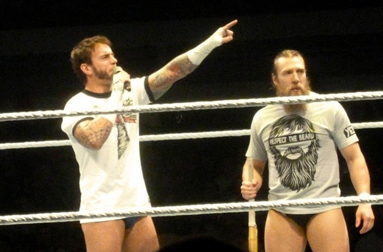 CM Punk and Daniel Bryan in the ring in November 2013 in Minehead.